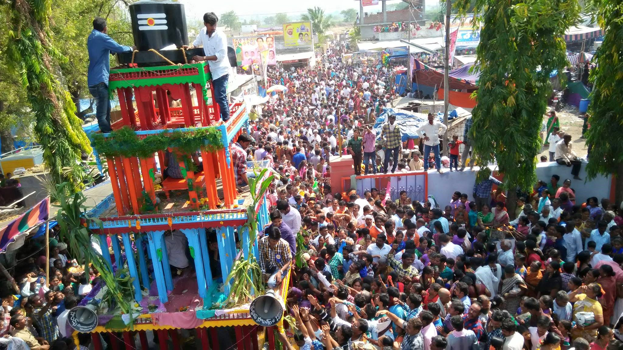 DubbaRajanna Rathotsavam Pembatla on 19-Feb-2015